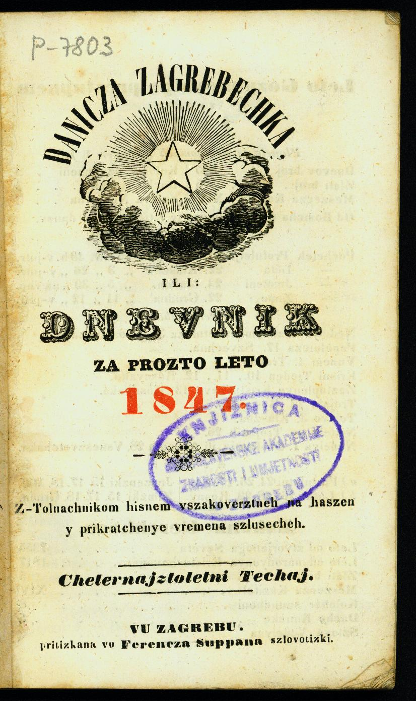 Danicza zagrebechka (1847), calendar in Kajkavian Croatian language. Editor: Ignac Kristijanović